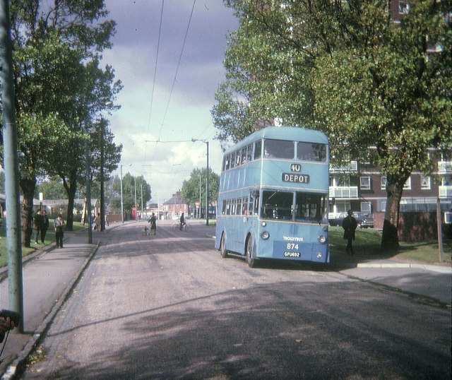 Walsall Trolleybus in Wolverhampton Road, Bloxwich. B.U.T. 9611T trolleybus 874 (registration number GFU 692) in Wolverhampton Road, Bloxwich with a block of flats on the right, behind the trees. The vehicle has Northern Coachbuilders 54-seater bodywork dating from 1950 and entered service in early 1962, having been transferred from Grimsby-Cleethorpes Transport the previous year. This road is now blocked off in the background with the A4124 Bell Lane. This photo was taken on Saturday, 3rd October 1970, the final day of trolleybus operation in Walsall.